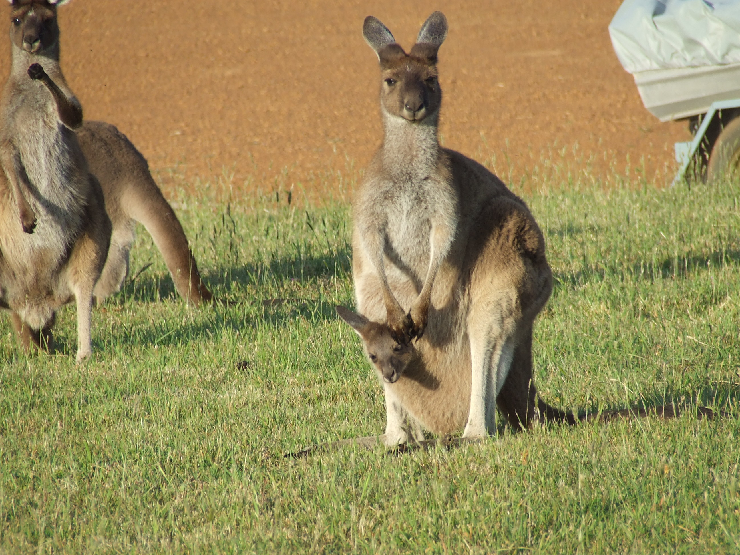 Mother and lazy child kangaroo taken in Denmark western Australia